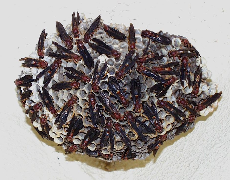 (Cropped version) This is a mature red wasp (Polistes annularis) nest.